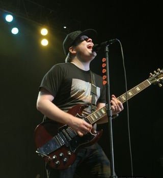 Patrick Stump of Fall Out Boy in concert.